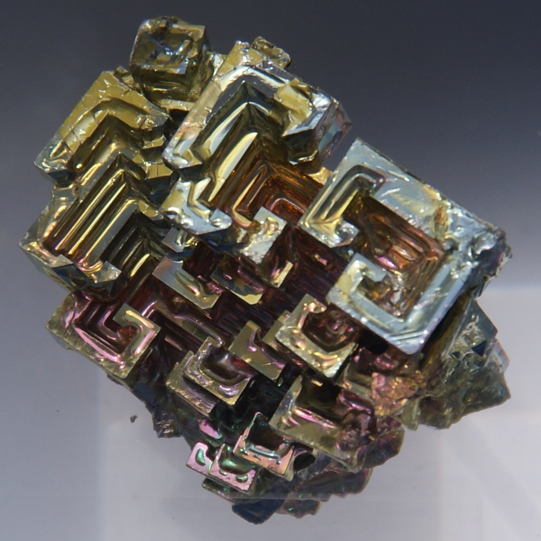 Bismuth crystal